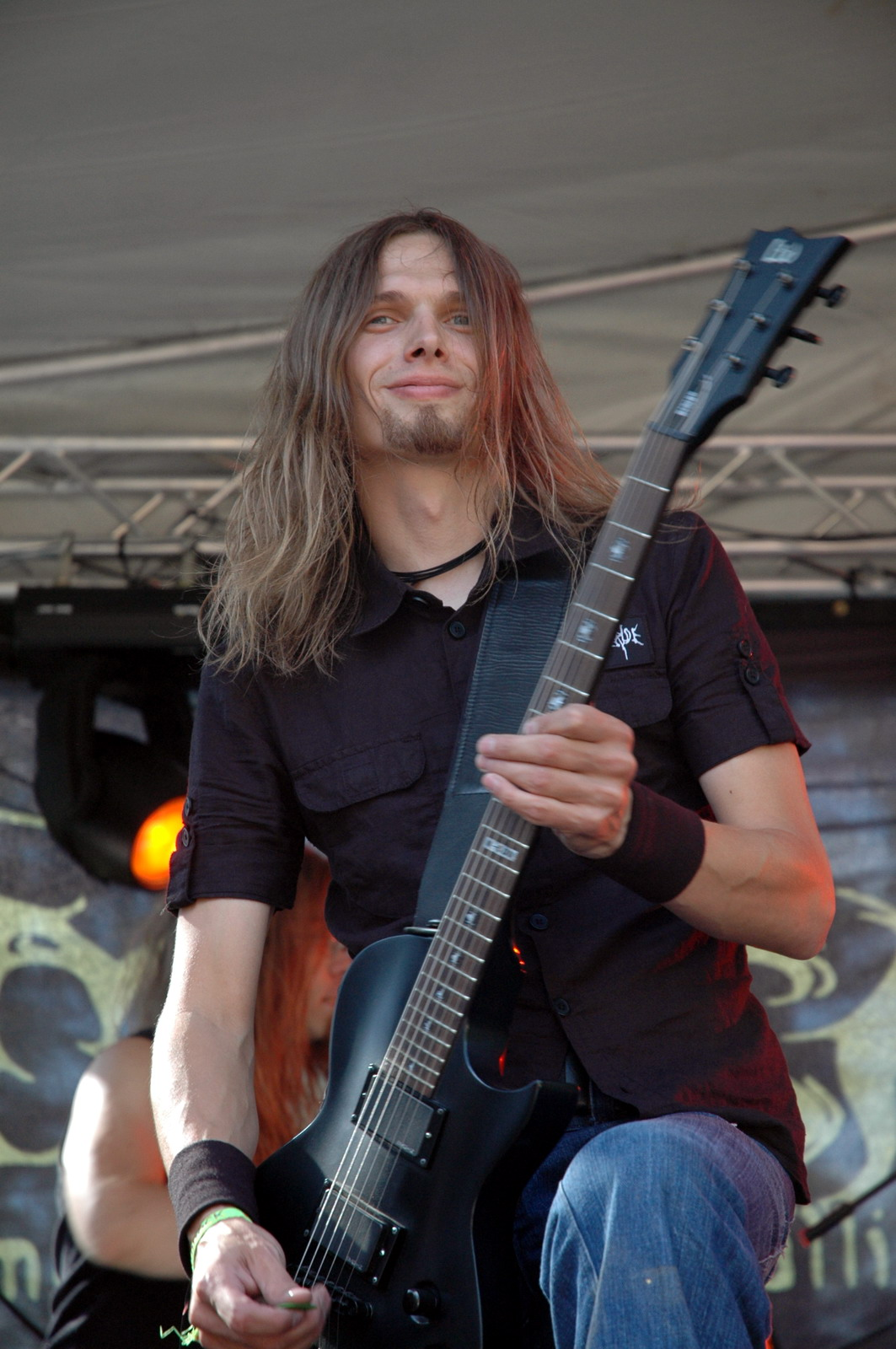 Juha Raivio from Swallow the Sun, 2006